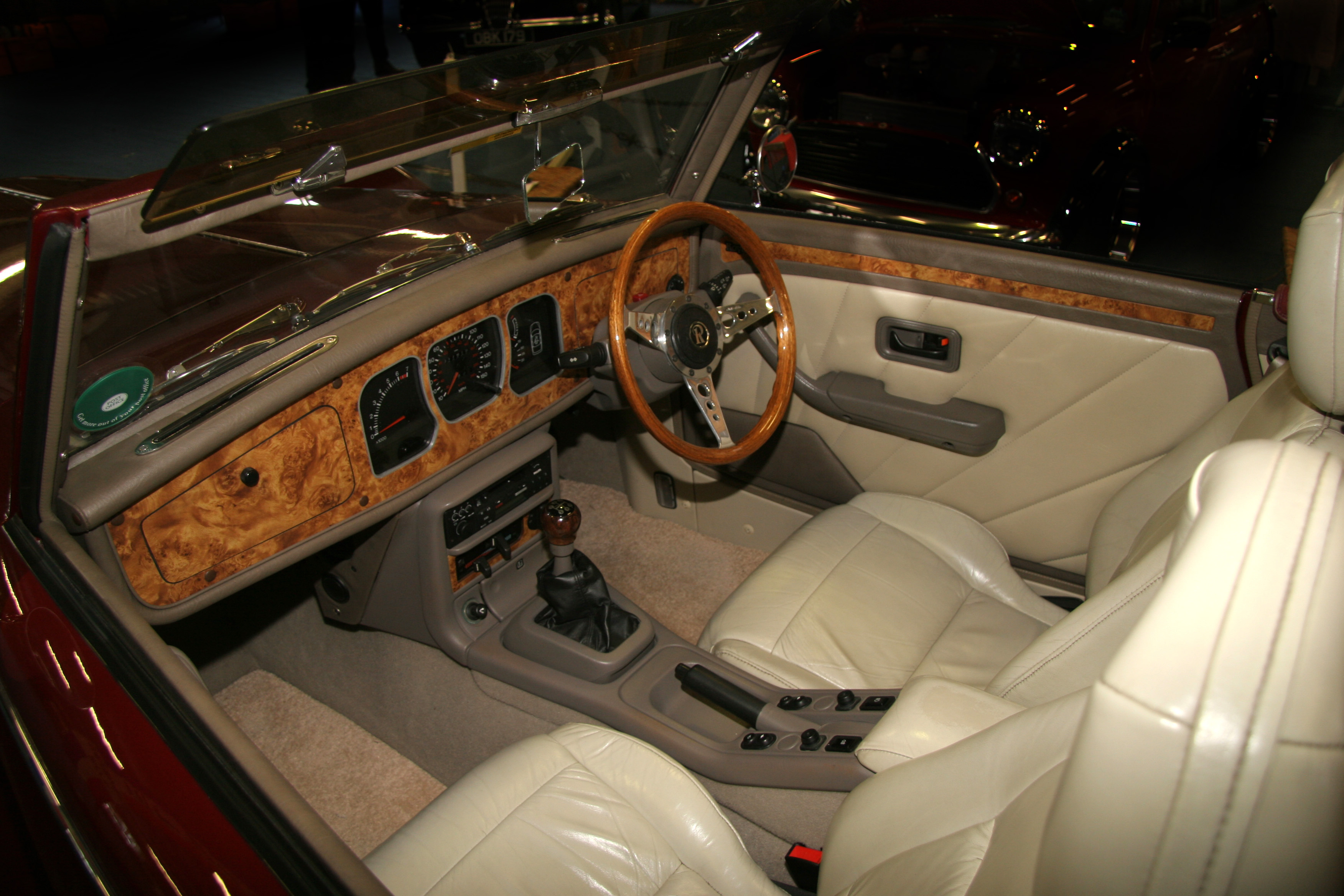 Apparently the Royale Motor Company was sold in 2000 and the Sabre was sold to the Empire Motor Company in Holland